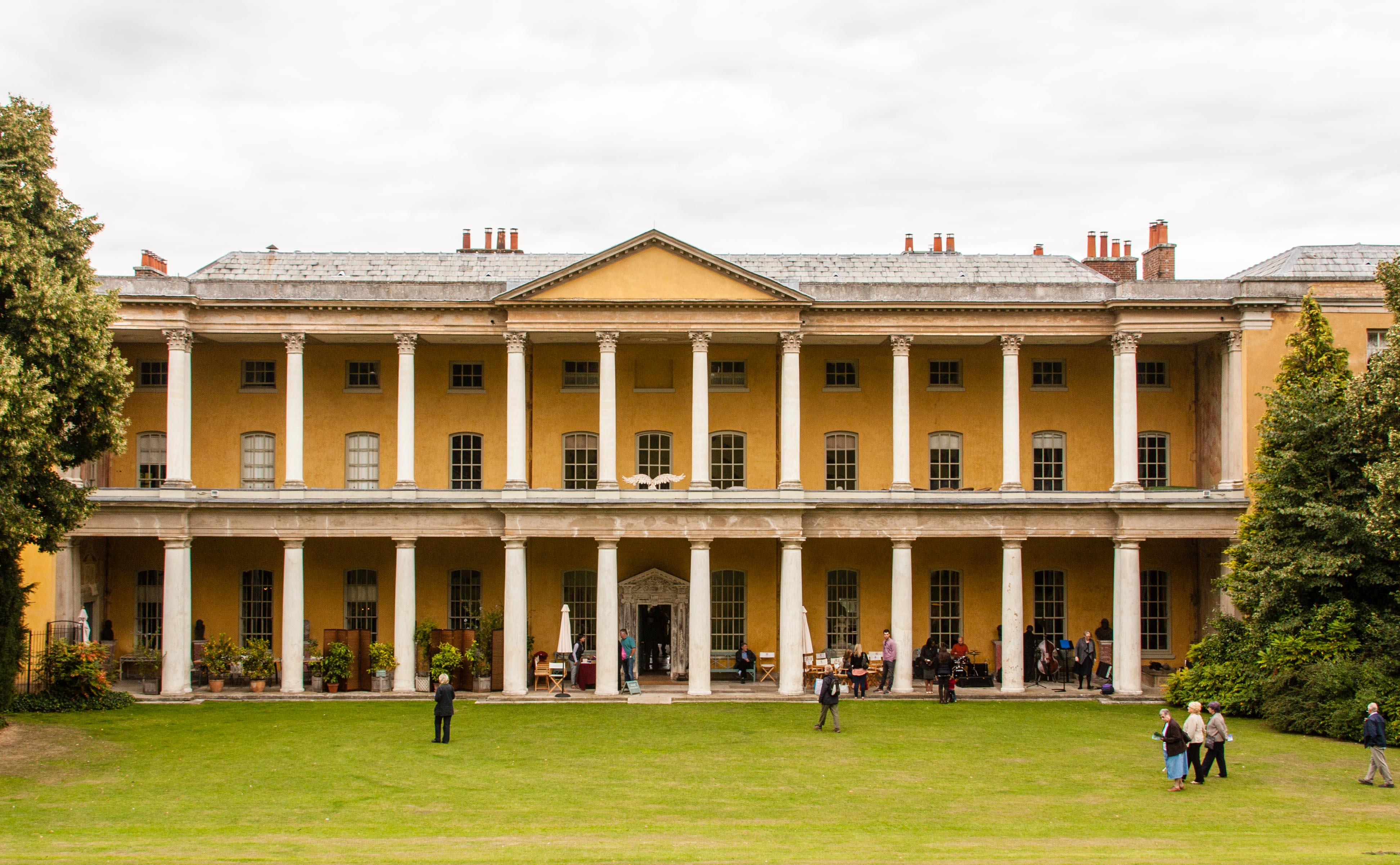 The South Front of West Wycombe Park, it is a It is a double, superimposed colonnade bridging the south extension wings, the lower tier is Tuscan and the upper tier is Corinthian with a central projecting pediment.